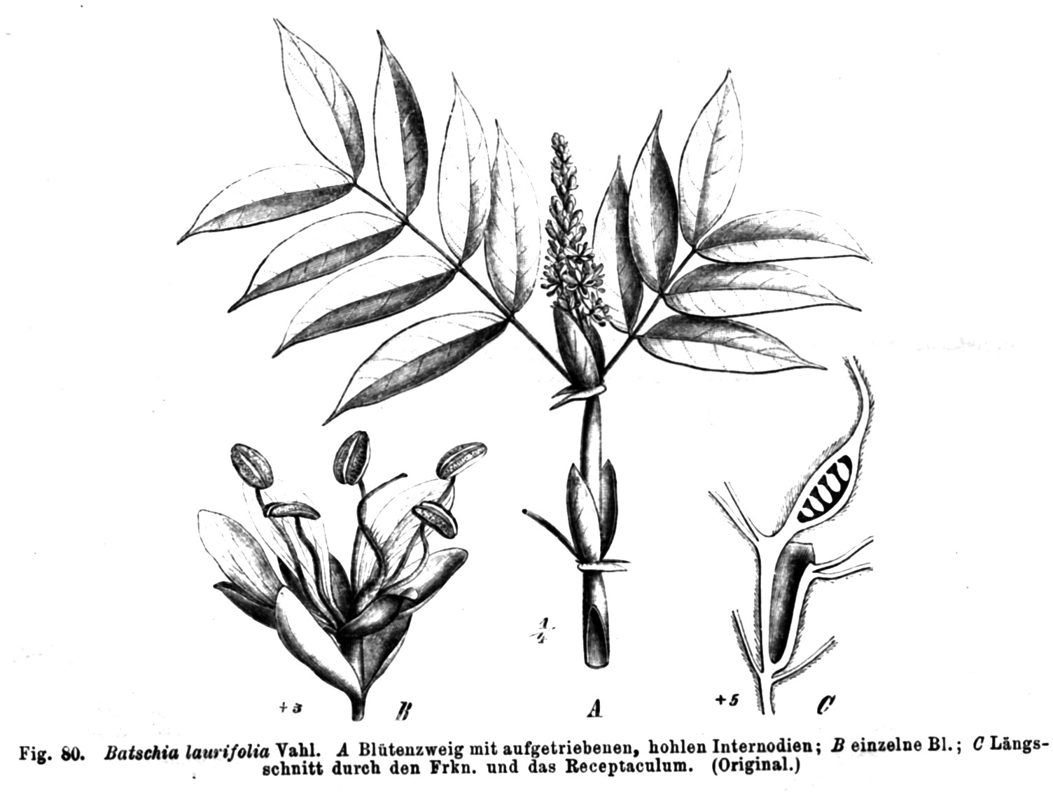 Illustration from book